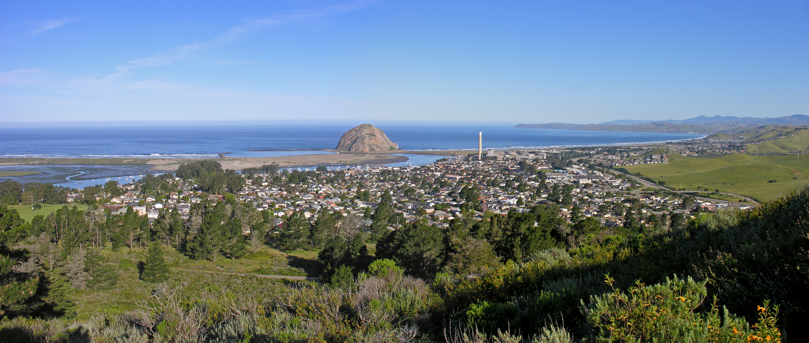 This is a picture of Morro Bay, Morro Rock, and the City of Morro Bay, in San Luis Obispo County, California. The picture was taken by me on May 28, 2006. I give permission for the picture to be used with attribution under the GFDL and Creative Commons.